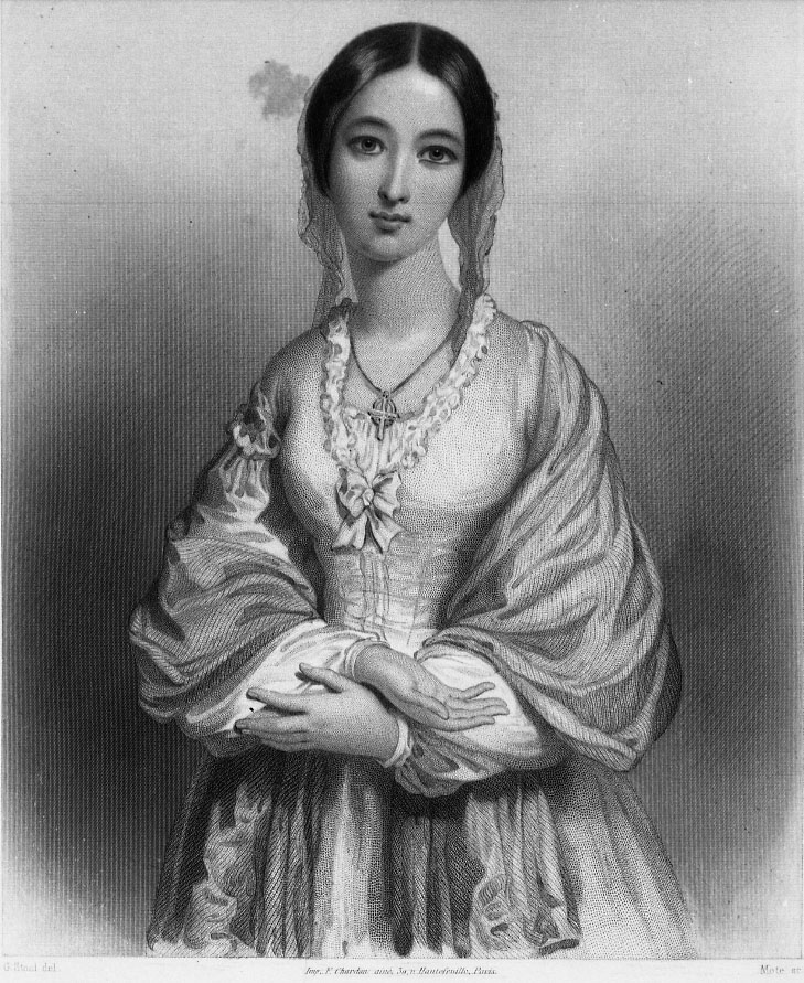 Florence Nightingale by Charles Staal, engraved by G. H. Mote